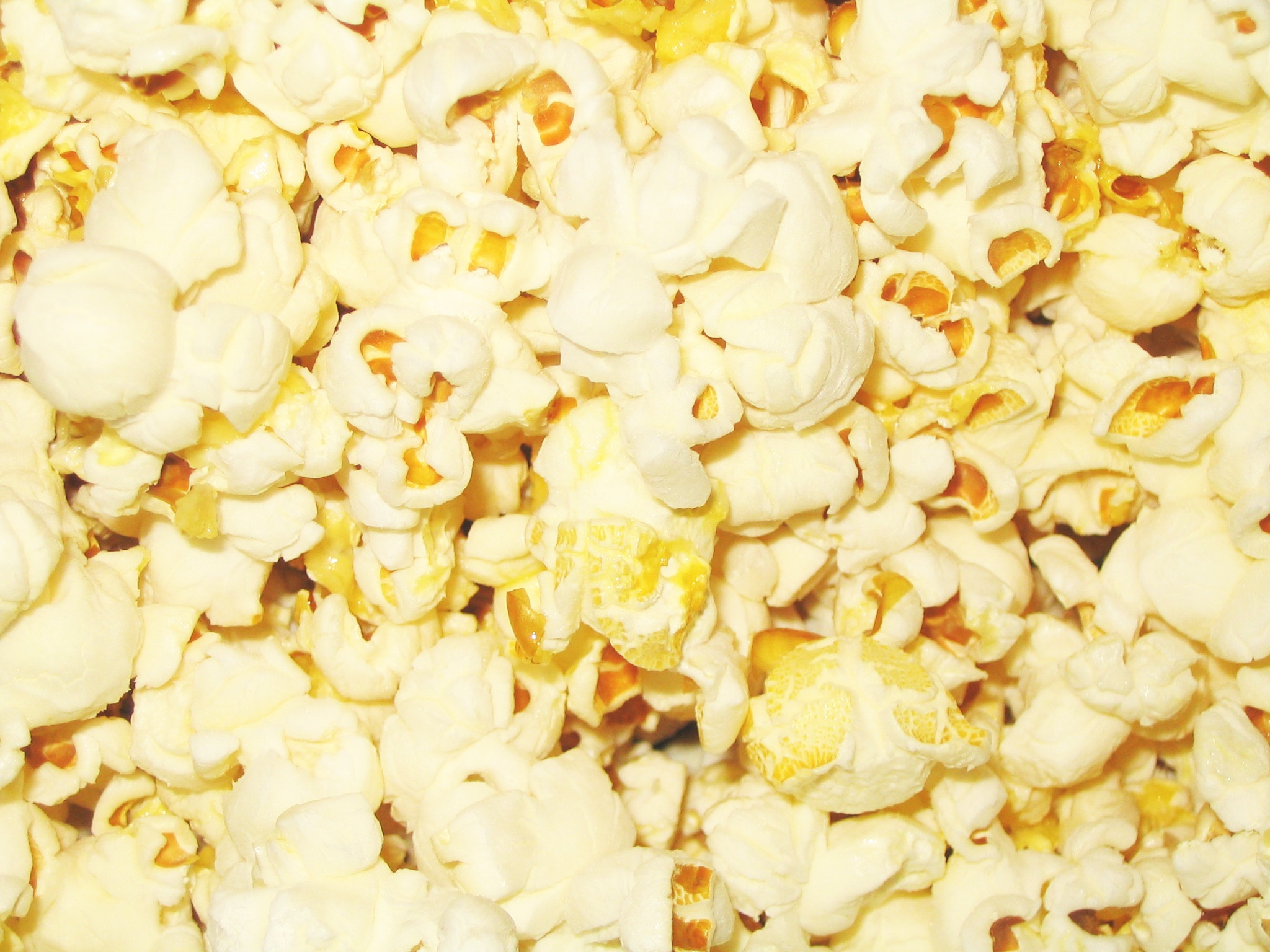 This is a shot of tasty air popped popcorn with butter added! Taken on 1/4/2005 by myself